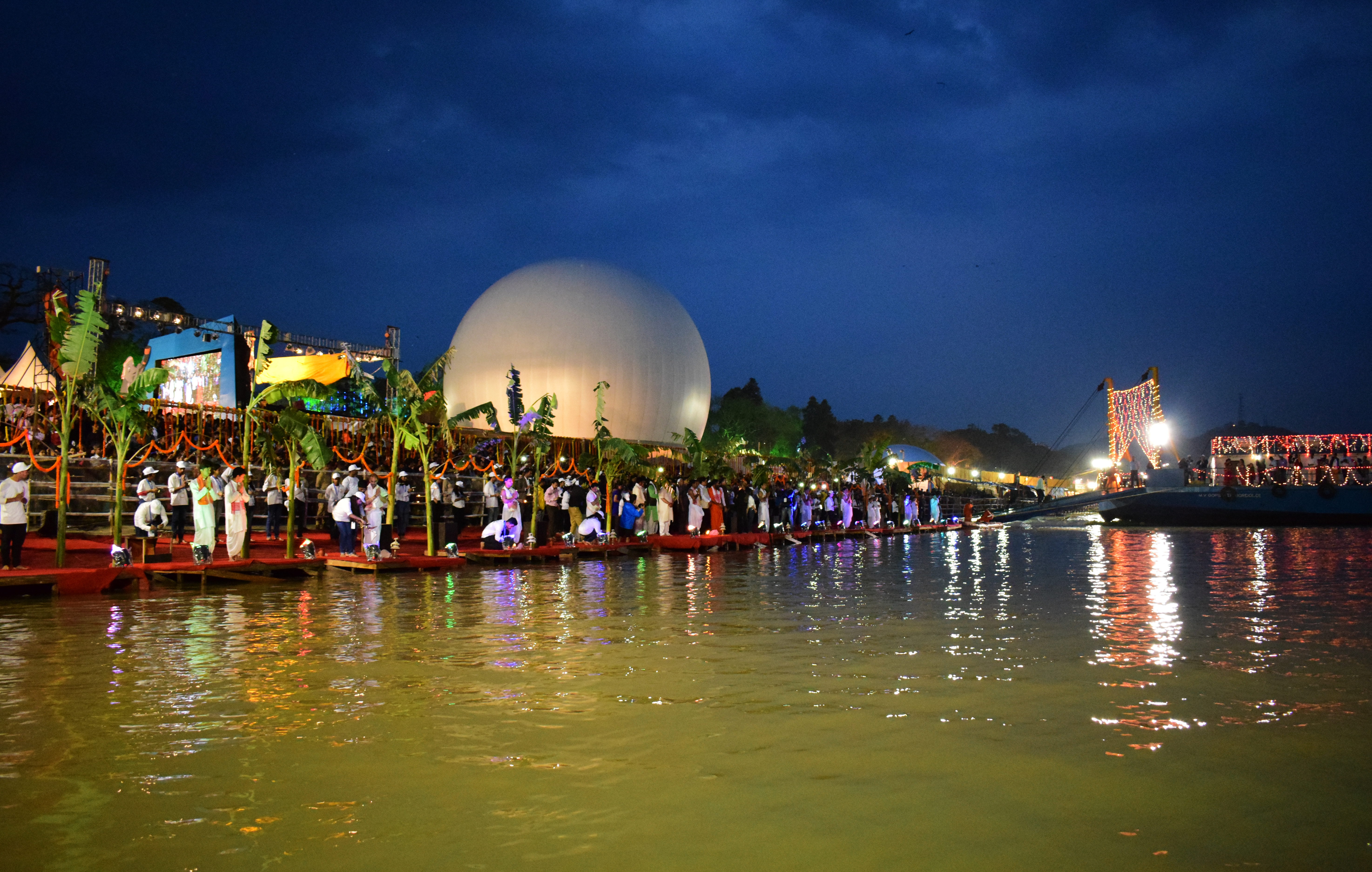 On 2017 this festival was held on the bank of Brahmaputra.